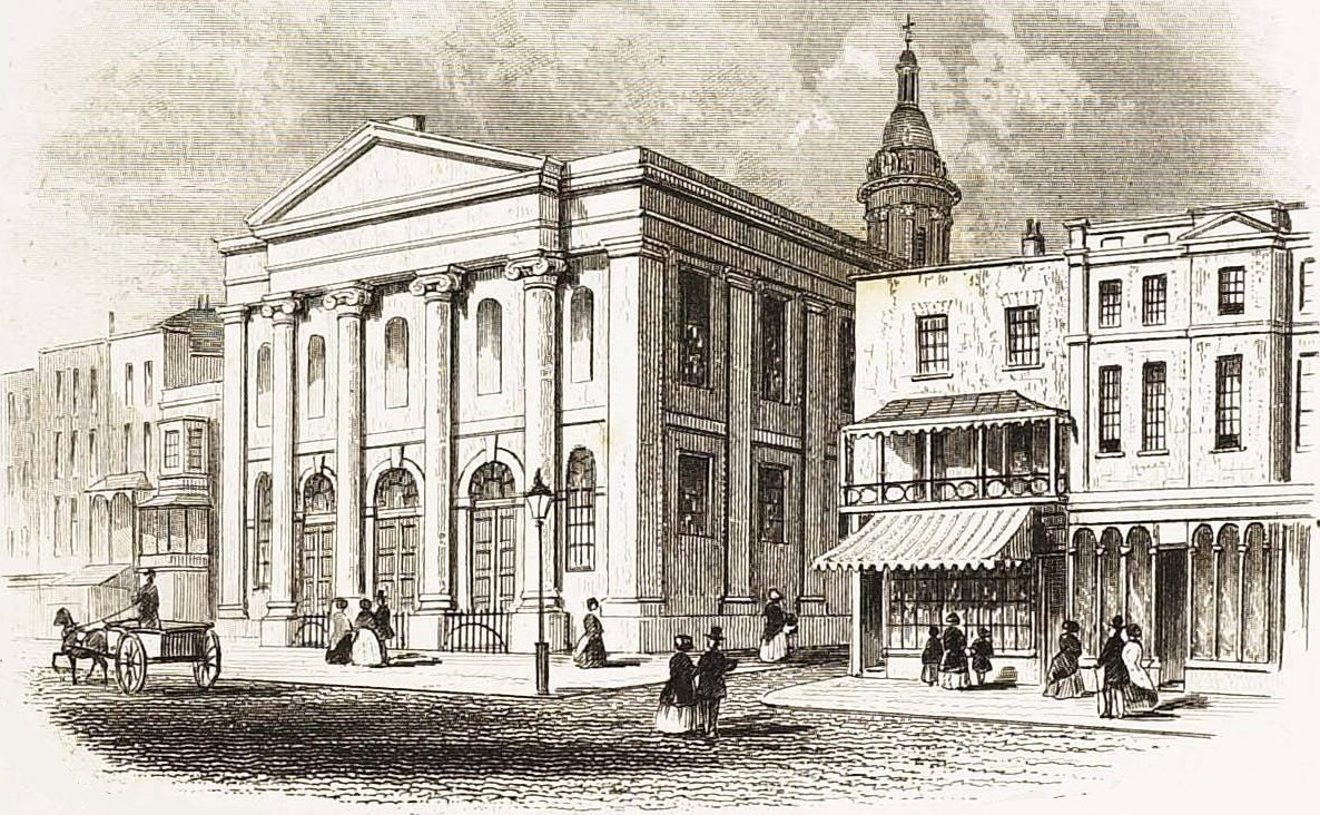 Cropped version of All Saints Church, Southampton, by Rock & Co. London. No. 1881. (Collection/Location: North Devon Athenaeum).